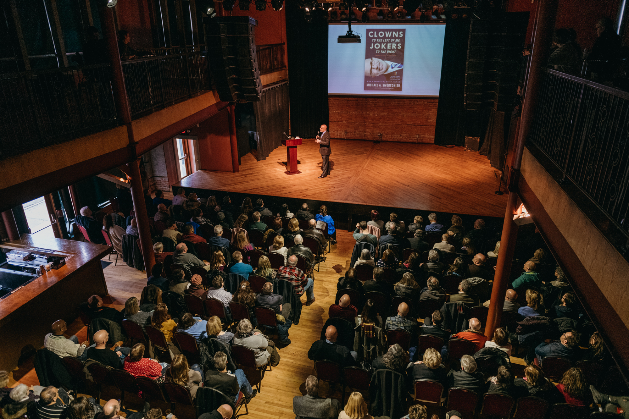 Michael Smerconish speaking to a crowd in Michigan regarding his 7th book "Clowns to the Left of Me, Jokers to the Right: American Life in Columns".